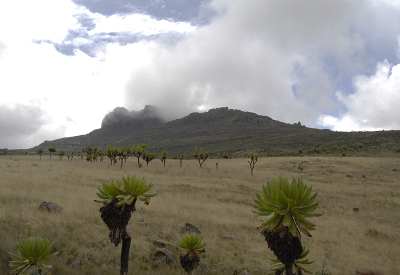 Koitobos peak, Mt Elgon, Kenya